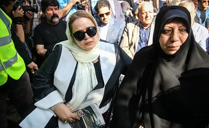 MP Parvaneh Mafi and Bahareh Rahnama at Abbas Kiarostami's funeral